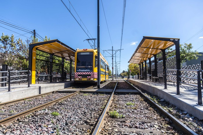 A Materfer tram at Fatima station on the Buenos Aires Premetro.